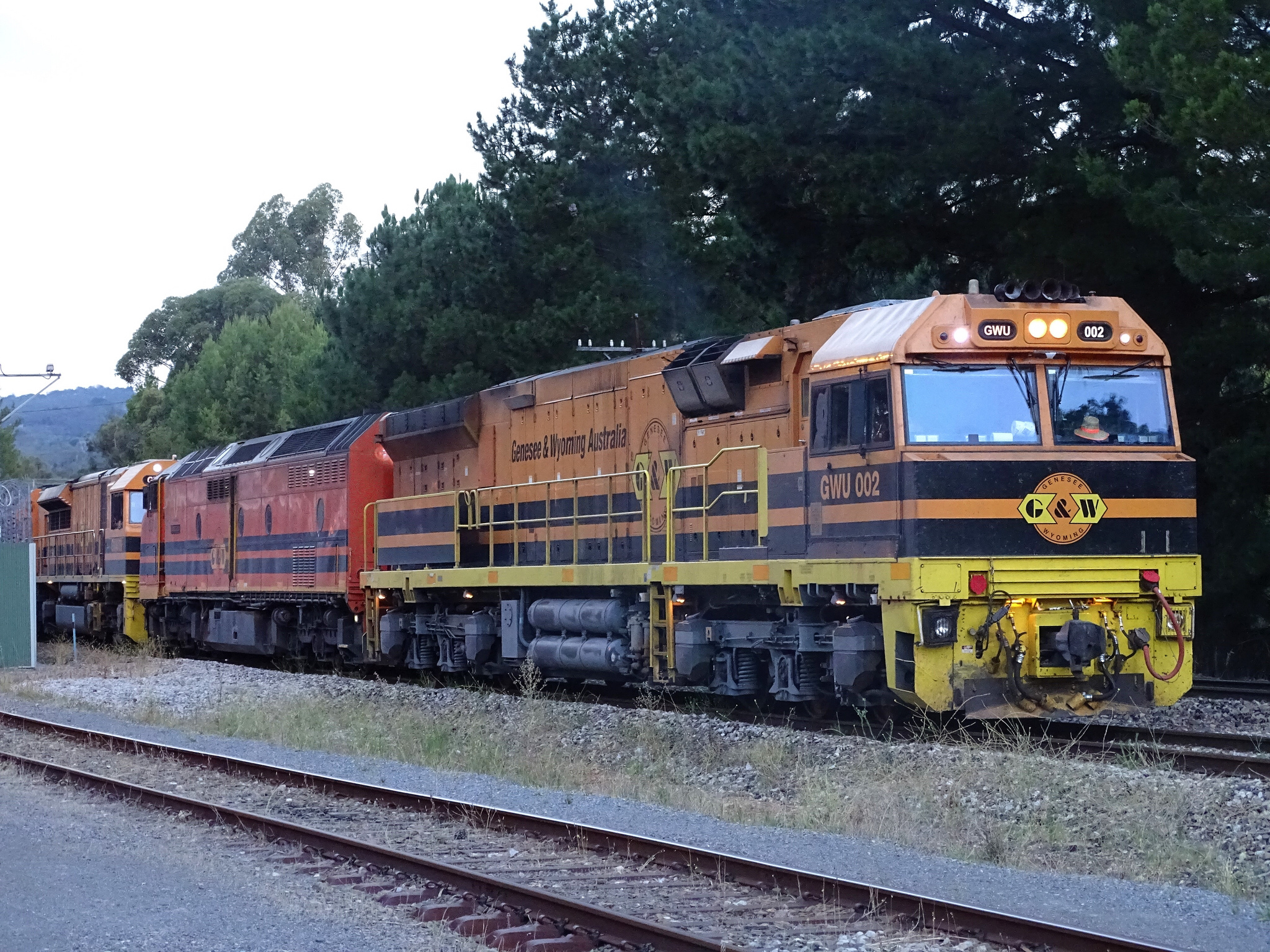 C44aci